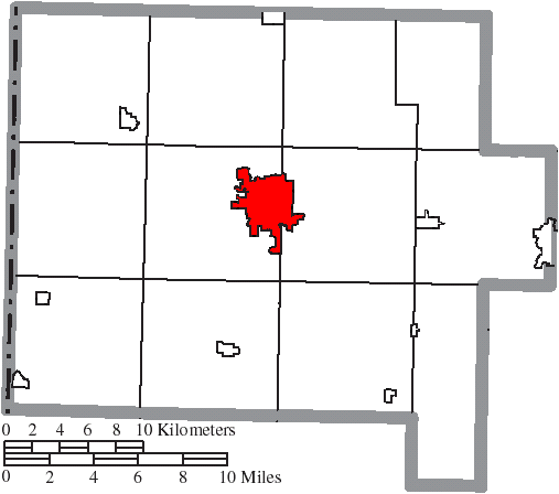 Map of the municipal and township boundaries of Van Wert County, Ohio, United States, as of the 2000 census, with the location of the city of Van Wert highlighted. Township borders are shown only in unincorporated areas in order to differentiate incorporated and unincorporated areas more clearly.